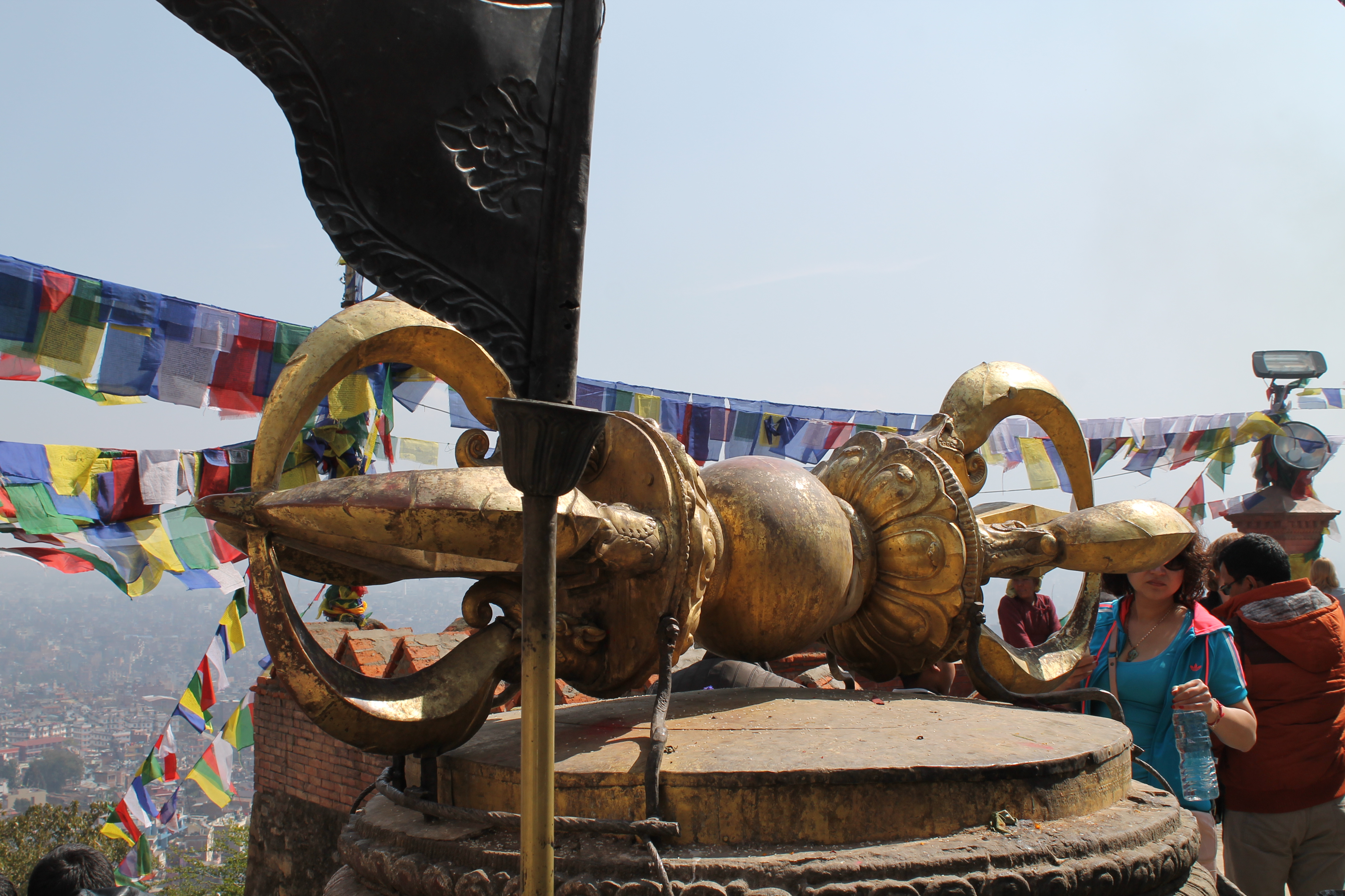 Varja at Swayambhunath Temple